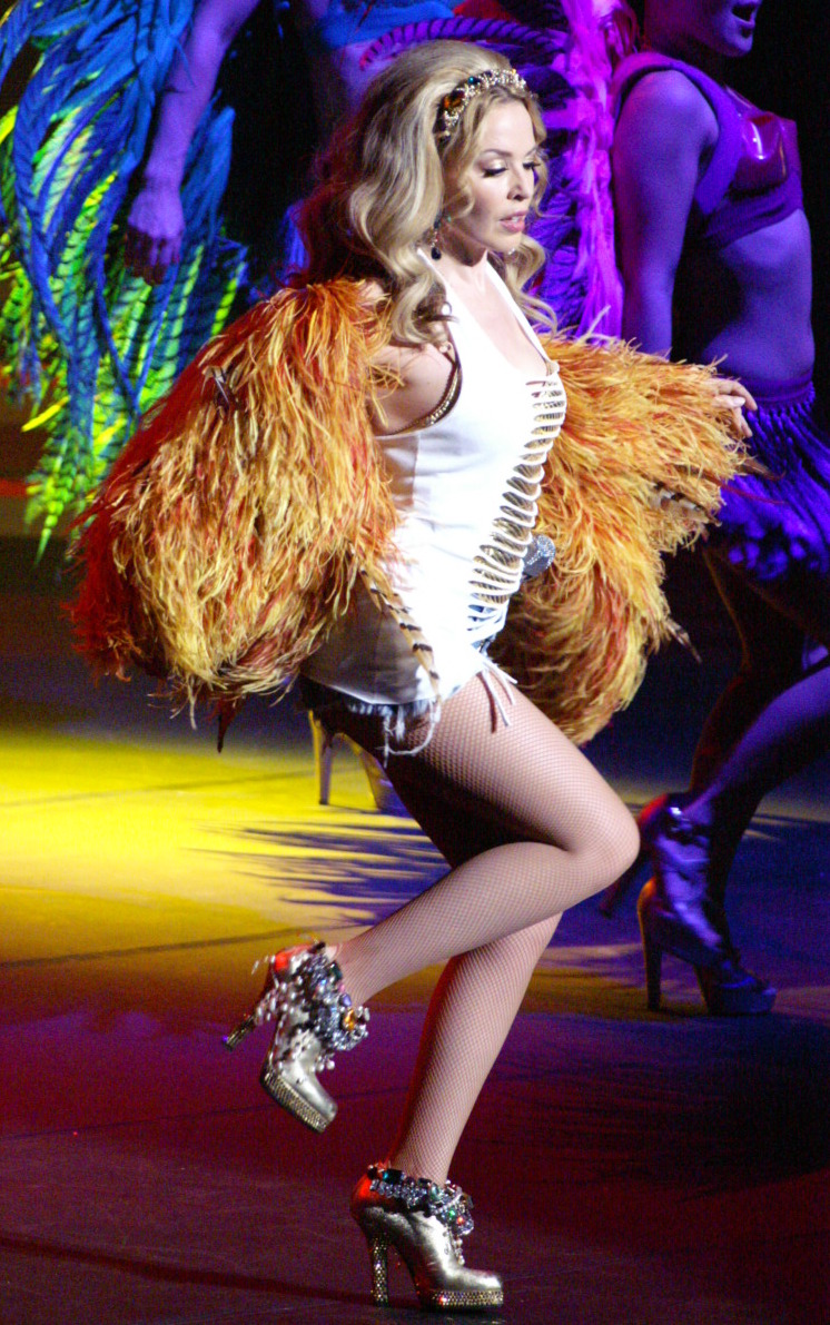 Kylie Minogue, Live Bell Center, Aphrodite Live Tour, Montreal, 28 April 2011 (209)